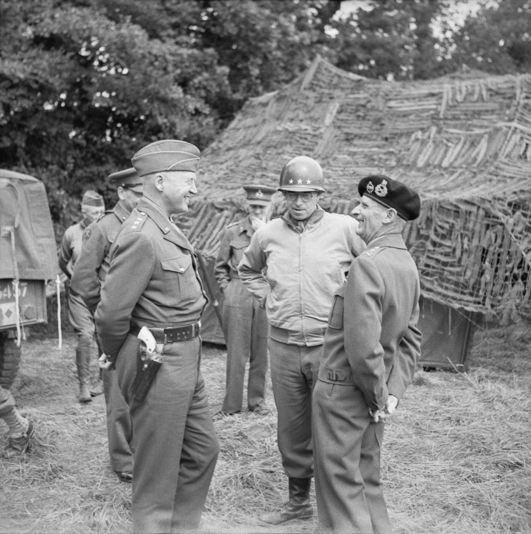 General Montgomery with Generals Patton (left) and Bradley (centre) at 21st Army Group HQ, Normandy, 7 July 1944. General Montgomery with Generals Patton (left) and Bradley (centre) at 21st Army Group HQ, 7 July 1944.